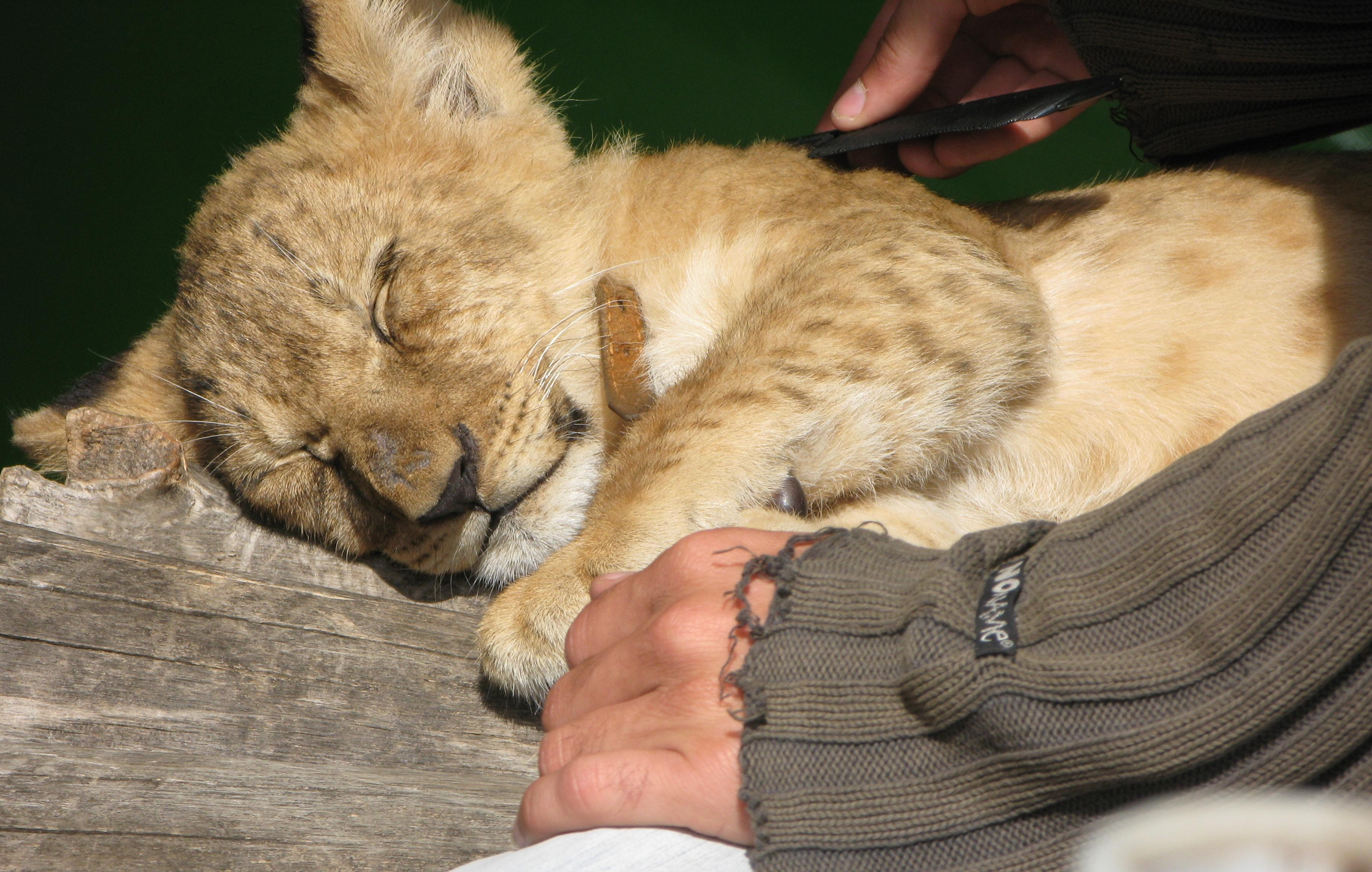 Panthera Leo in Crimea, Ukraine